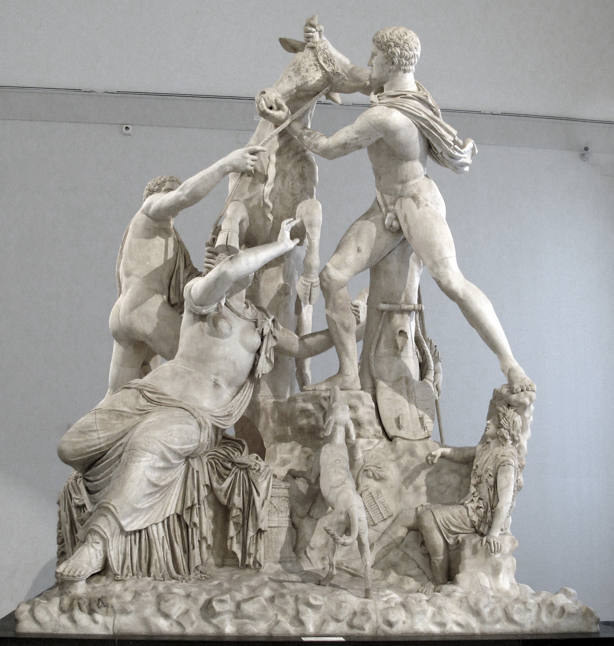 Ancient Roman statues in the Museo Archeologico (Naples)